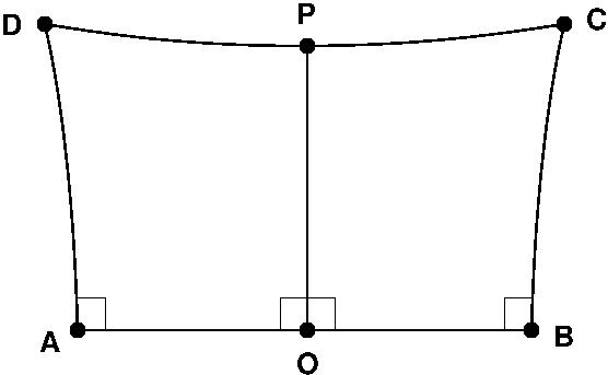 Divided Saccheri quadrilateral